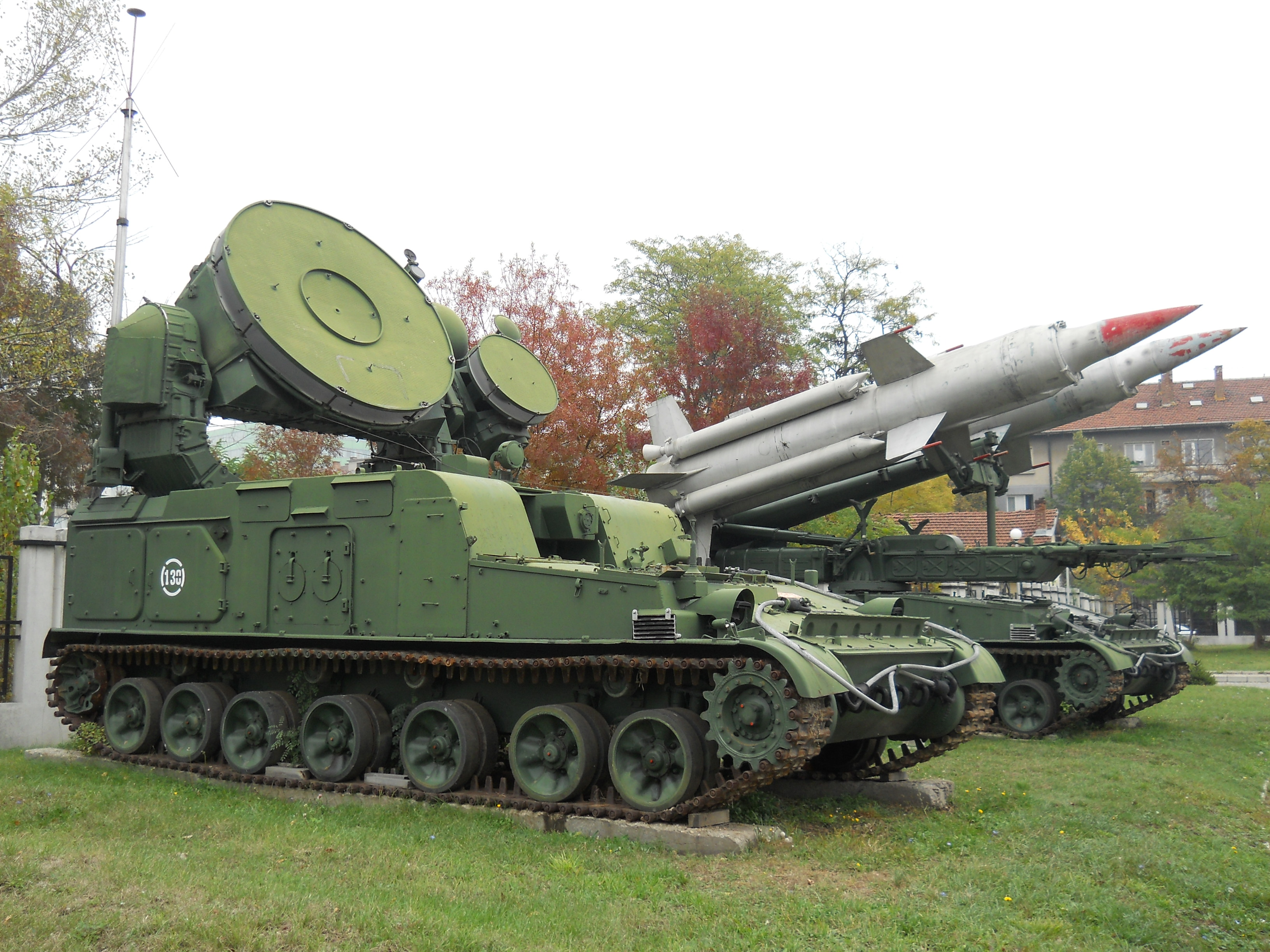 1S32 "Pat Hand" at the National Museum of Military History, Bulgaria. Camera: Nikon Coolpix L22 License on Flickr (2011-01-30): CC-BY-SA-2.0